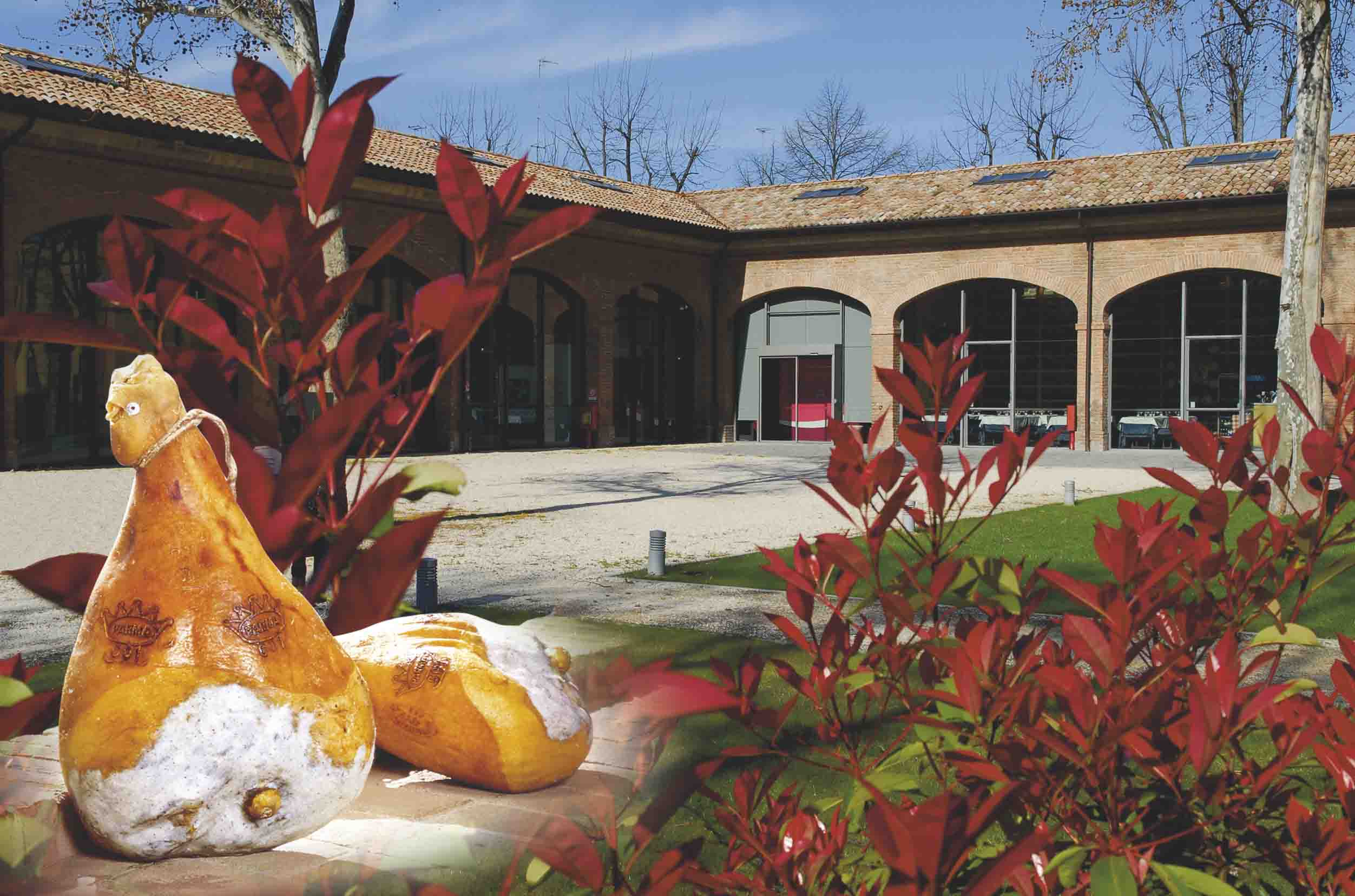 Museum of Parma's Ham - Langhirano (PR) - Italy